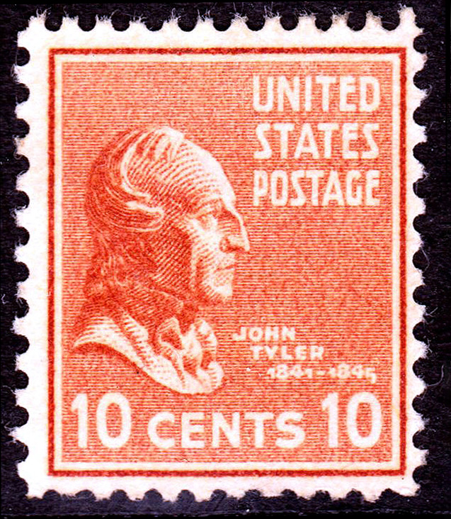 John_Tyler_1938_Issue-10c.jpg